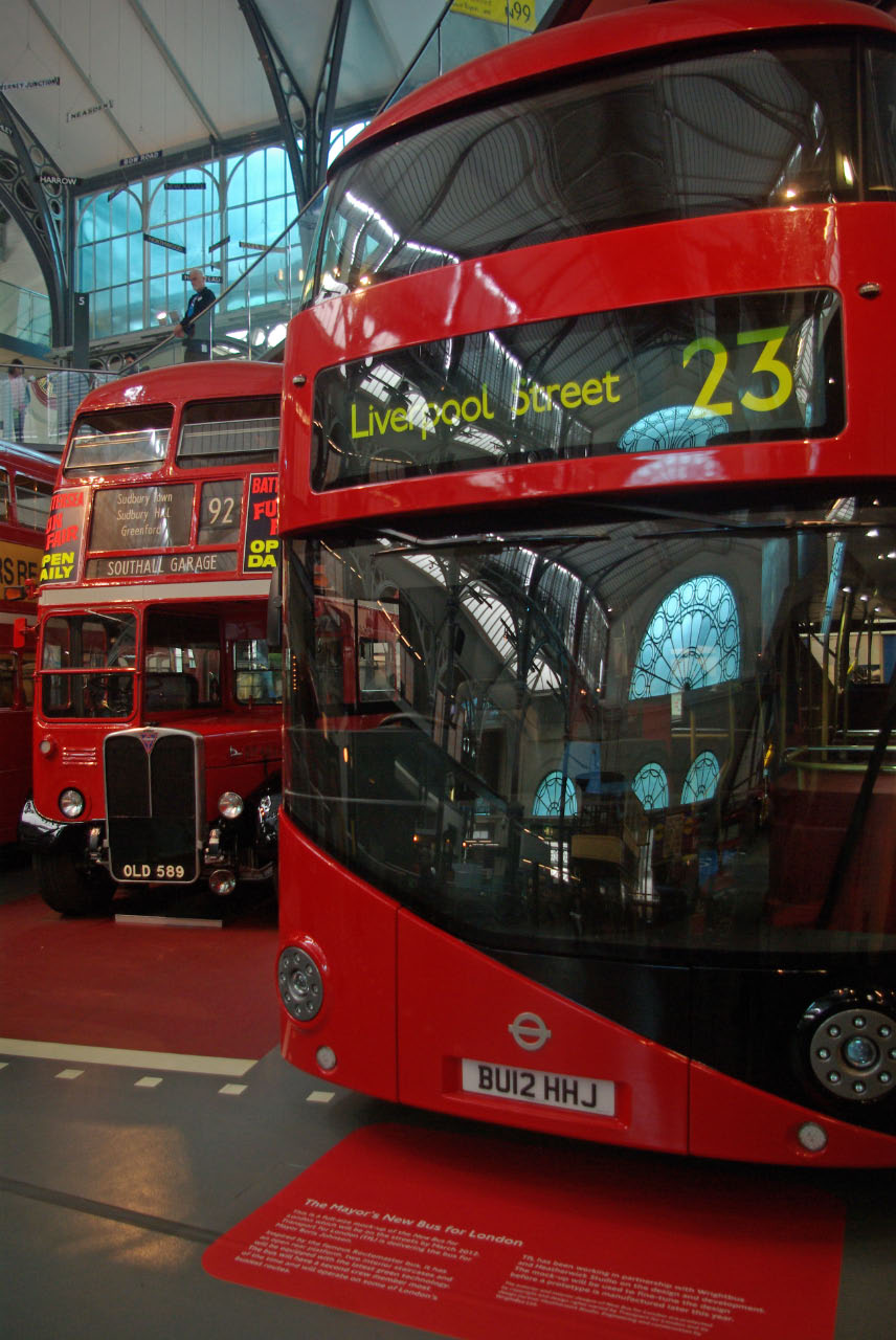 A full size scale mock-up of the planned New Bus for London, pictured here in the London Transport Museum in Covent Garden, London, next to the last standard London Transport RT class bus, the 1954 built RT4825 (reg. OLD 589).